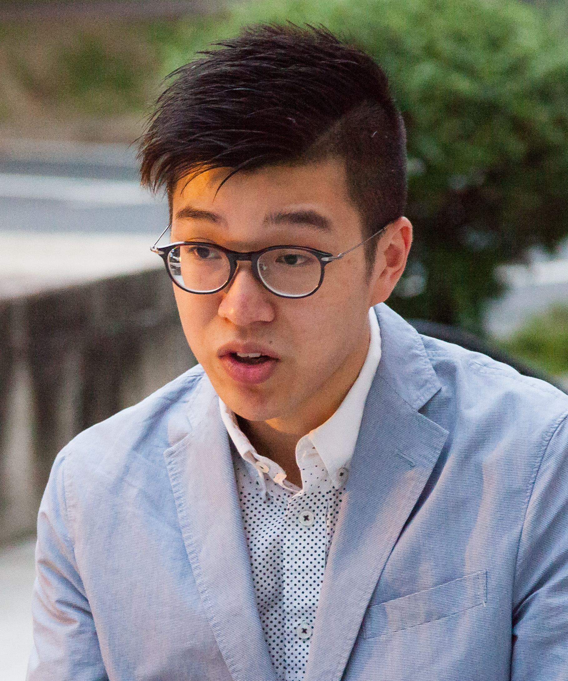 Elliot Leung addresses the media during the 1st Shenzhen Hong Kong Cultural Exchange